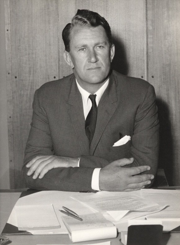 Malcolm Fraser as Minister for the Army in 1966.